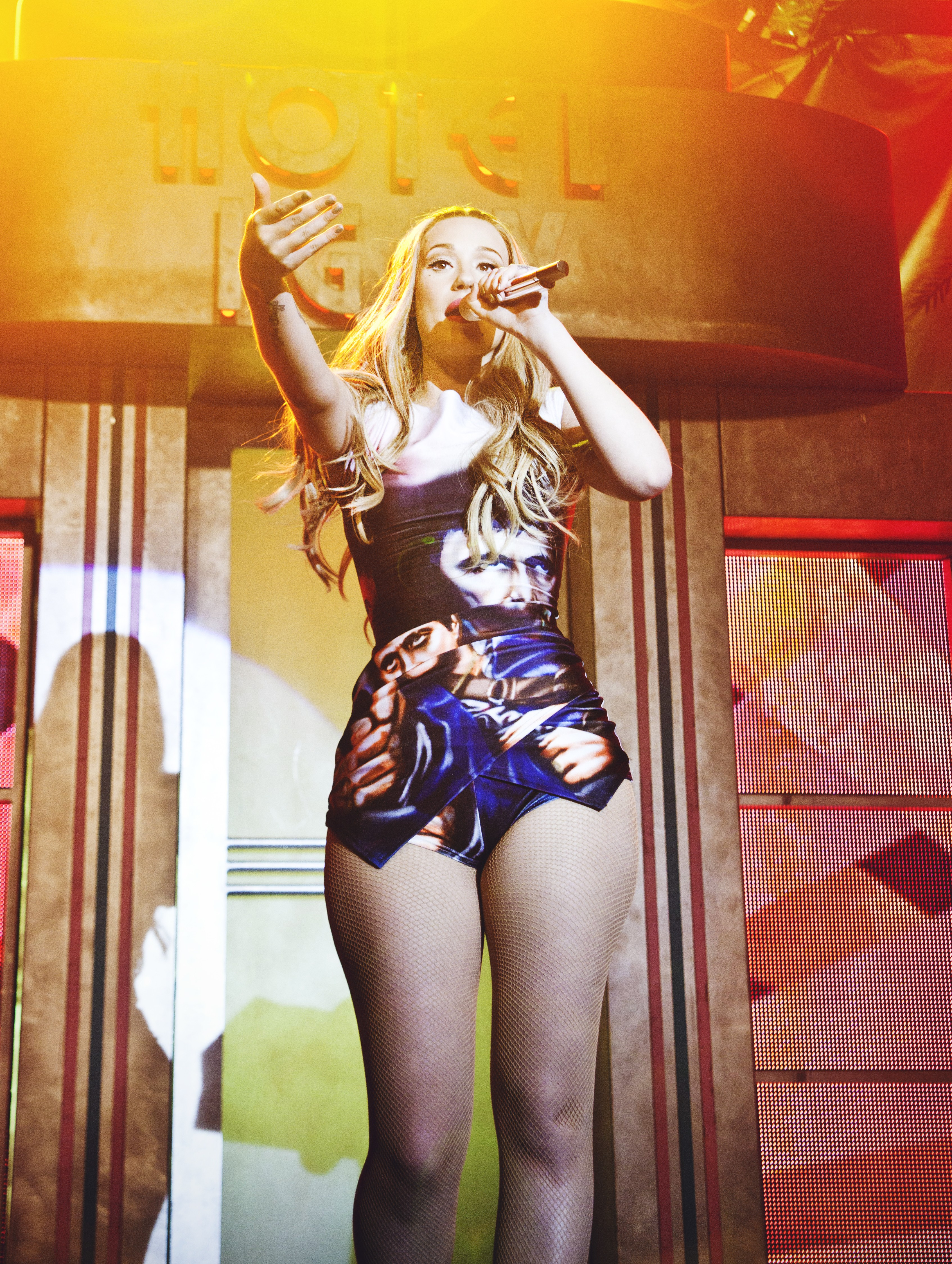 Iggy Azalea performing at Irving Plaza in New York City as part of her The New Classic Tour